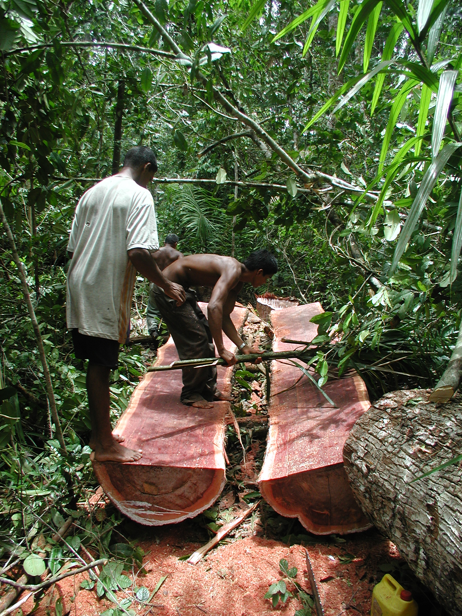 Guyaneese log "bulletwood" in the Berbice River, Guyana. They hand-mill the logs into lumber on-site with chainsaws. The wood is valued for its durable nature: when asked how long it lasts, one man replied "Dunno, no one's lived that long."